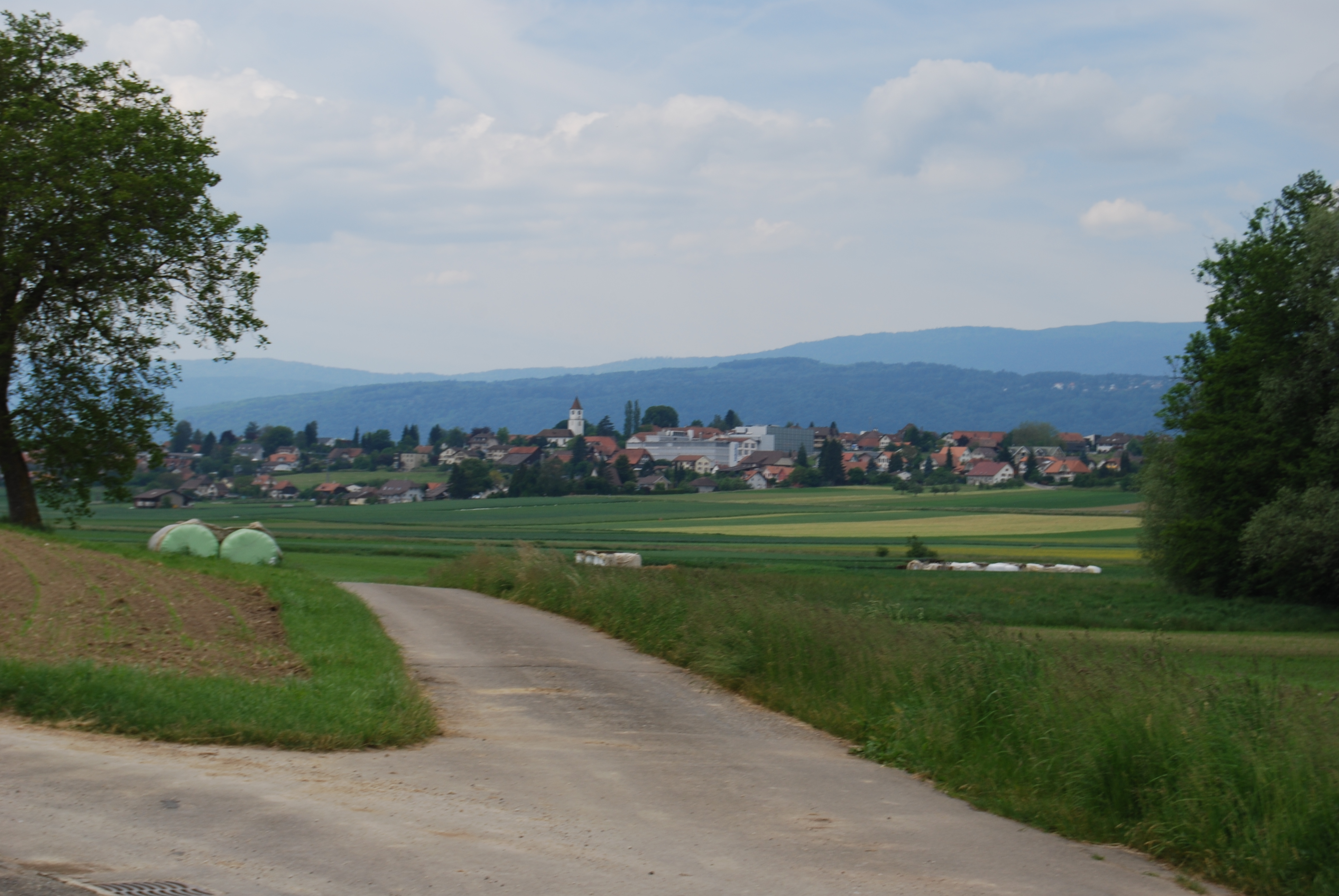 Täuffelen, canton of Bern, SwitzerlandEsperanto: Täuffelen, Kantono Berno, Svislando